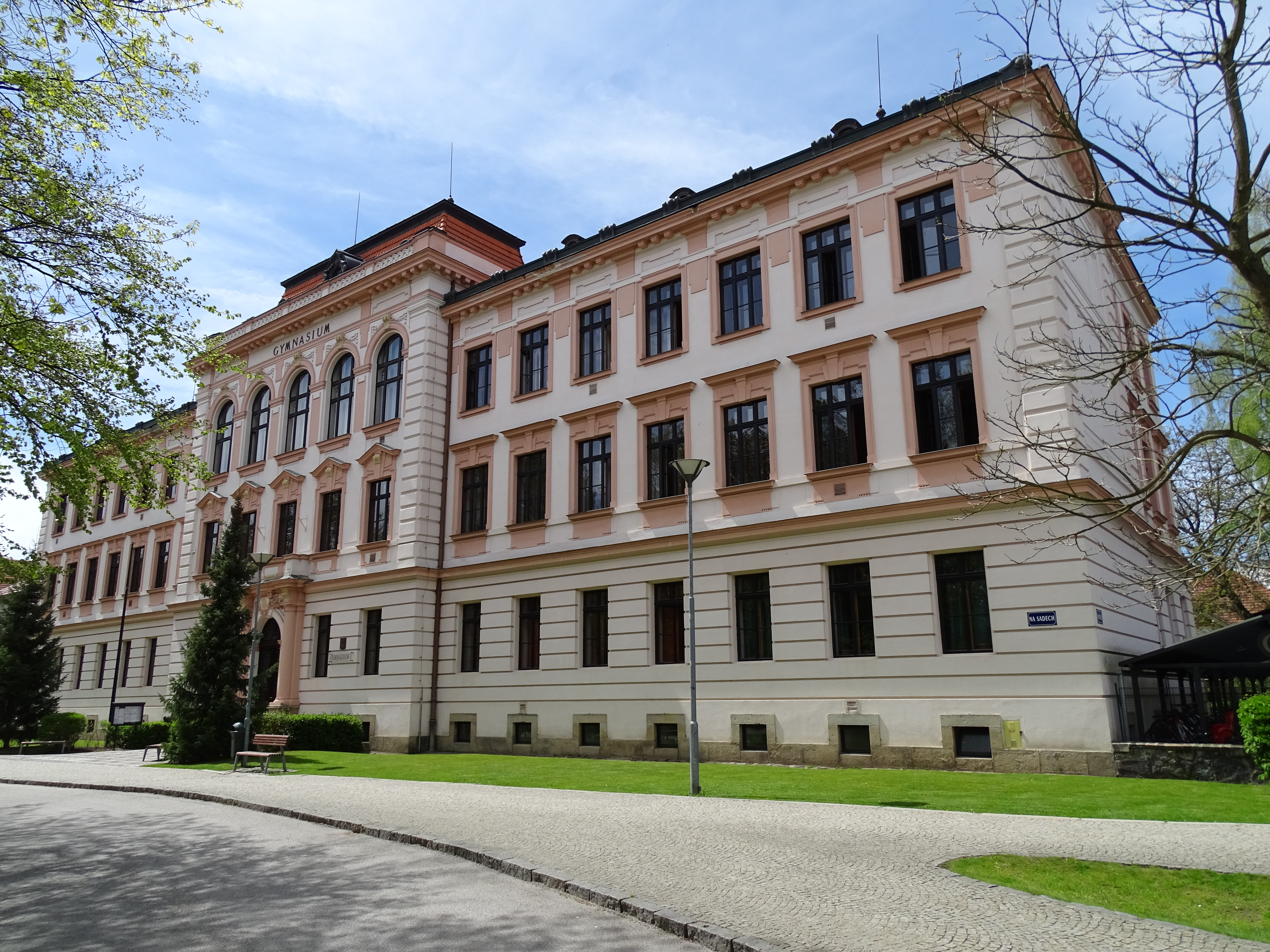 Třeboň II, Jindřichův Hradec District, South Bohemian Region, Na sadech 308, gymnázium Třeboň.